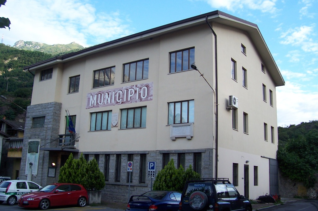 Town hall. Capo di Ponte, Val Camonica